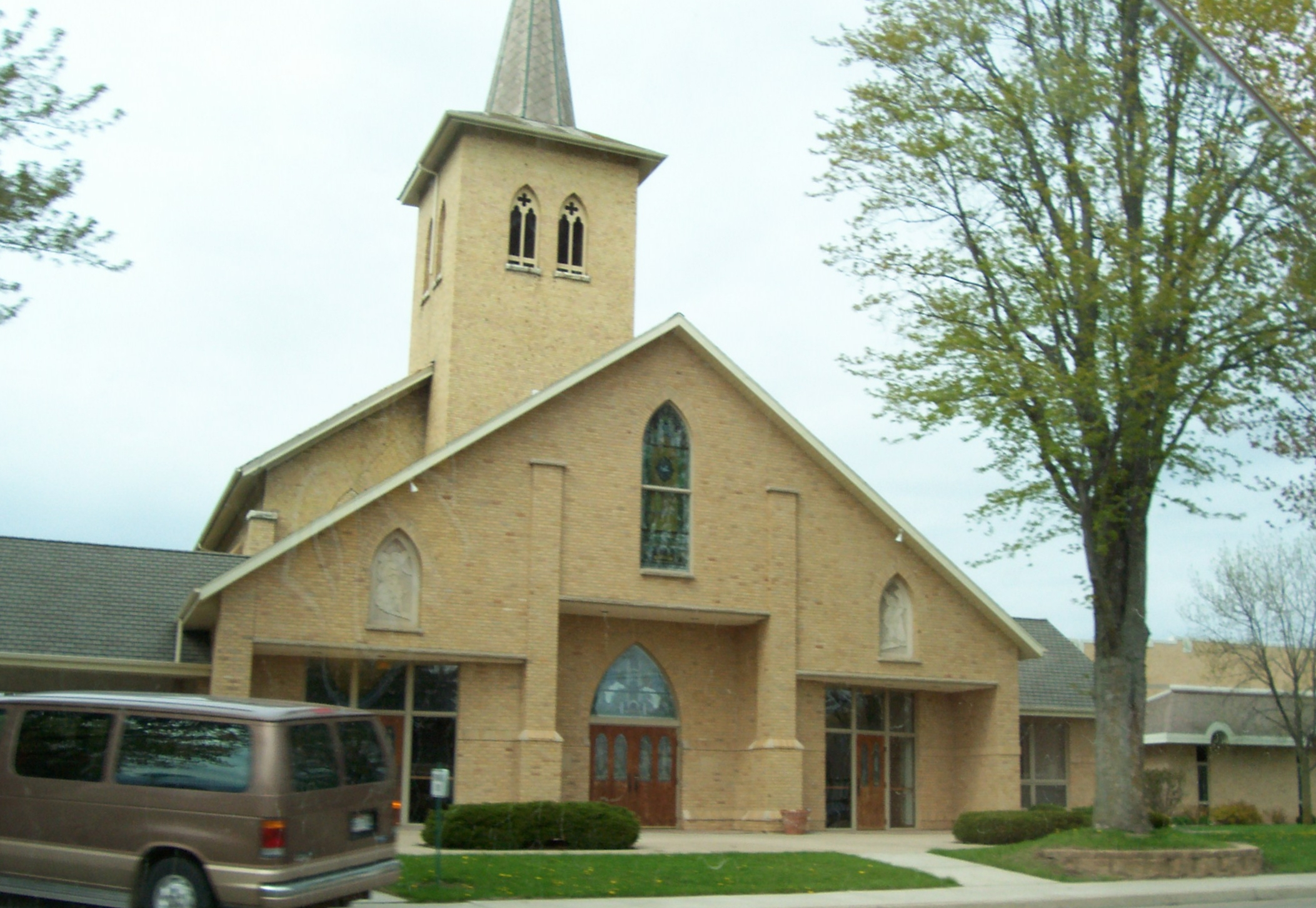 Looking north at the Catholic church in Darboy, Wisconsin, USA.